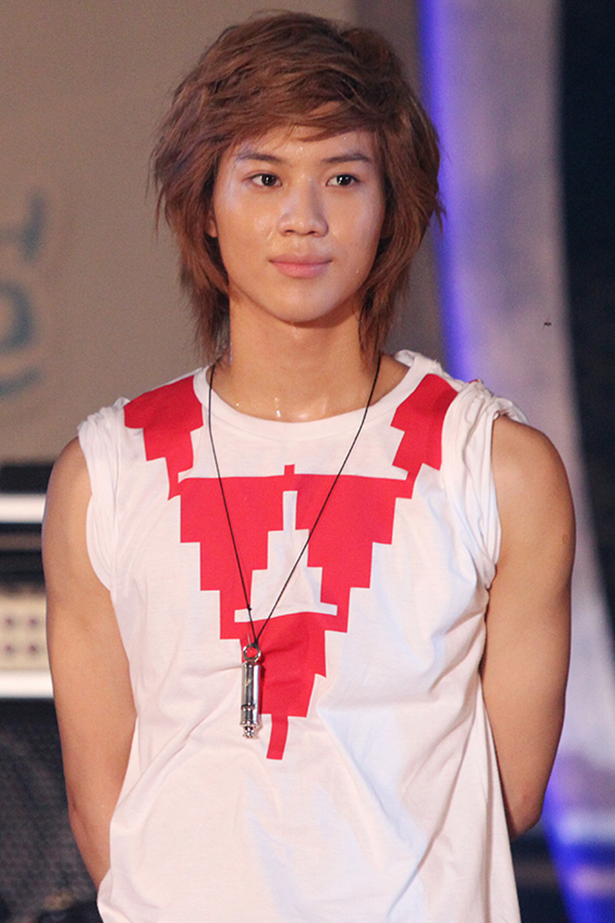 Taemin during the SBS 20th Anniversary Festival on August 18, 2010.